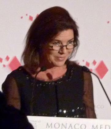 Princess Caroline of Hanover, at the Monaco Media Forum Awards ceremony in Monaco (Principality) November 12, 2009, a moment before awarding the prize to Jimmy Wales. The Princess gave a short lecture on the importance of Media in modern society, and then awarded Jimmy Wales with the annual prize.